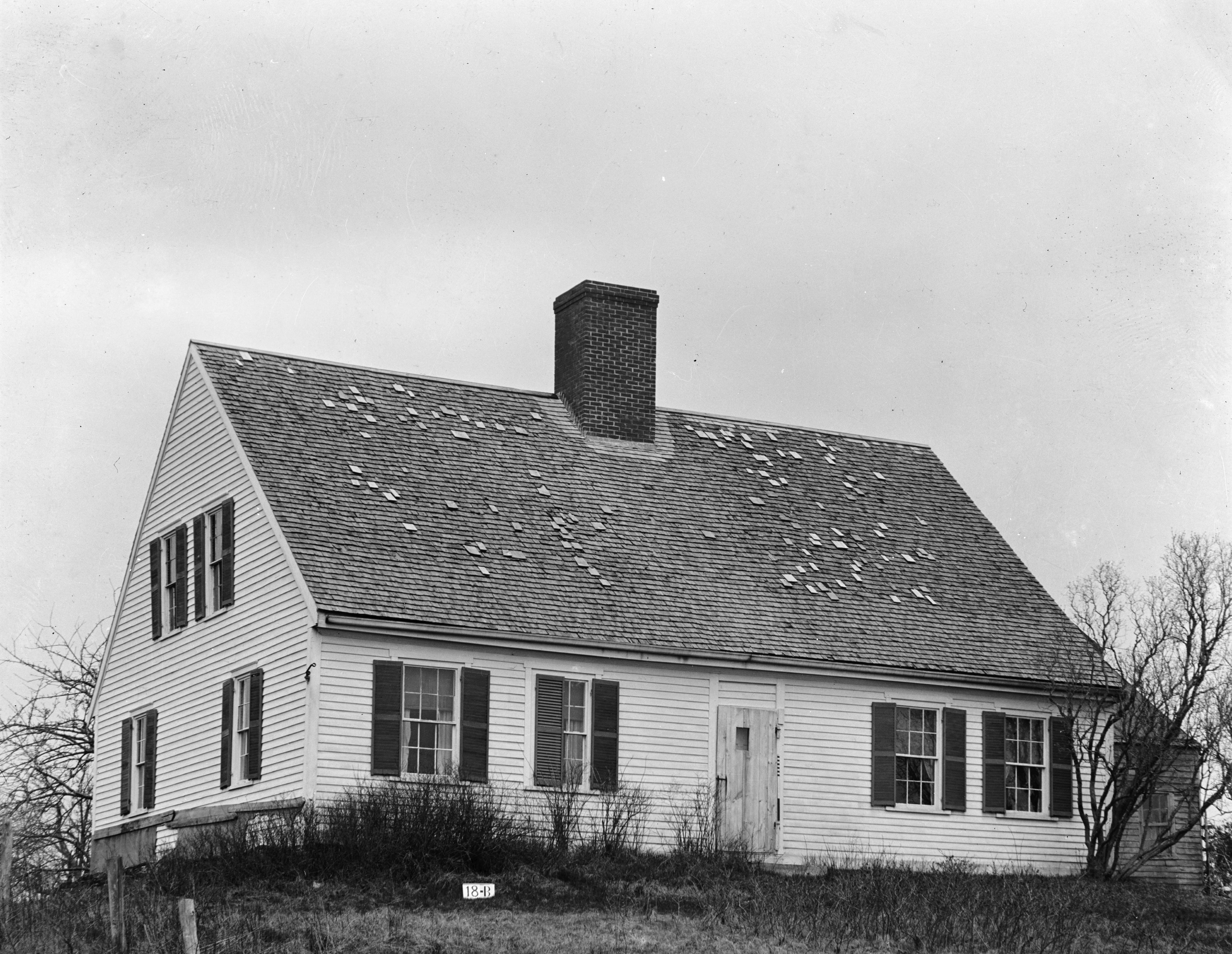 Front of the Black Horse Tavern located along Searsport Avenue in Belfast, Maine, United States. Built in 1795, it is listed on the National Register of Historic Places.